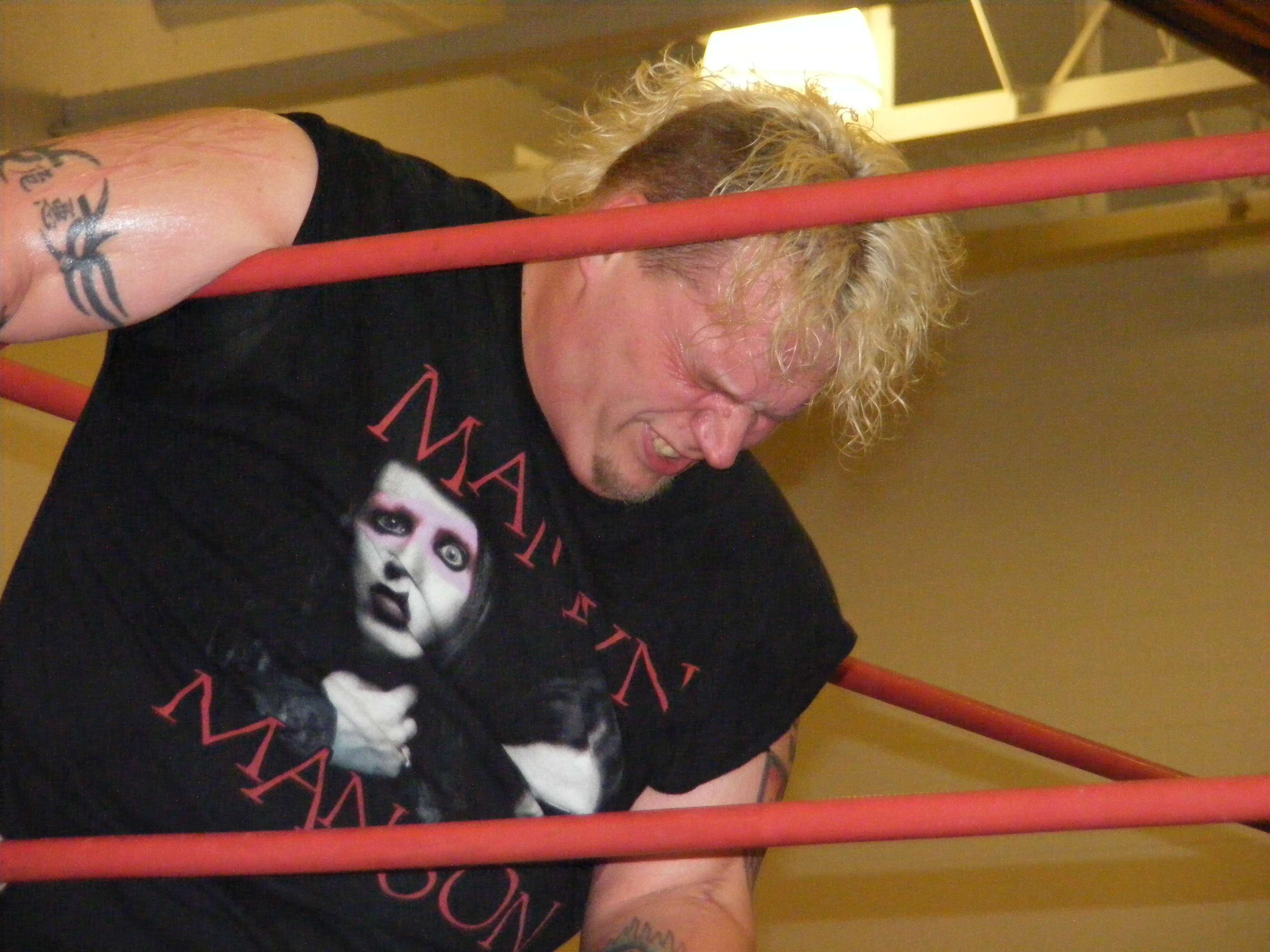 Professional wrestler Axl Rotten at an NCW show in April 2009